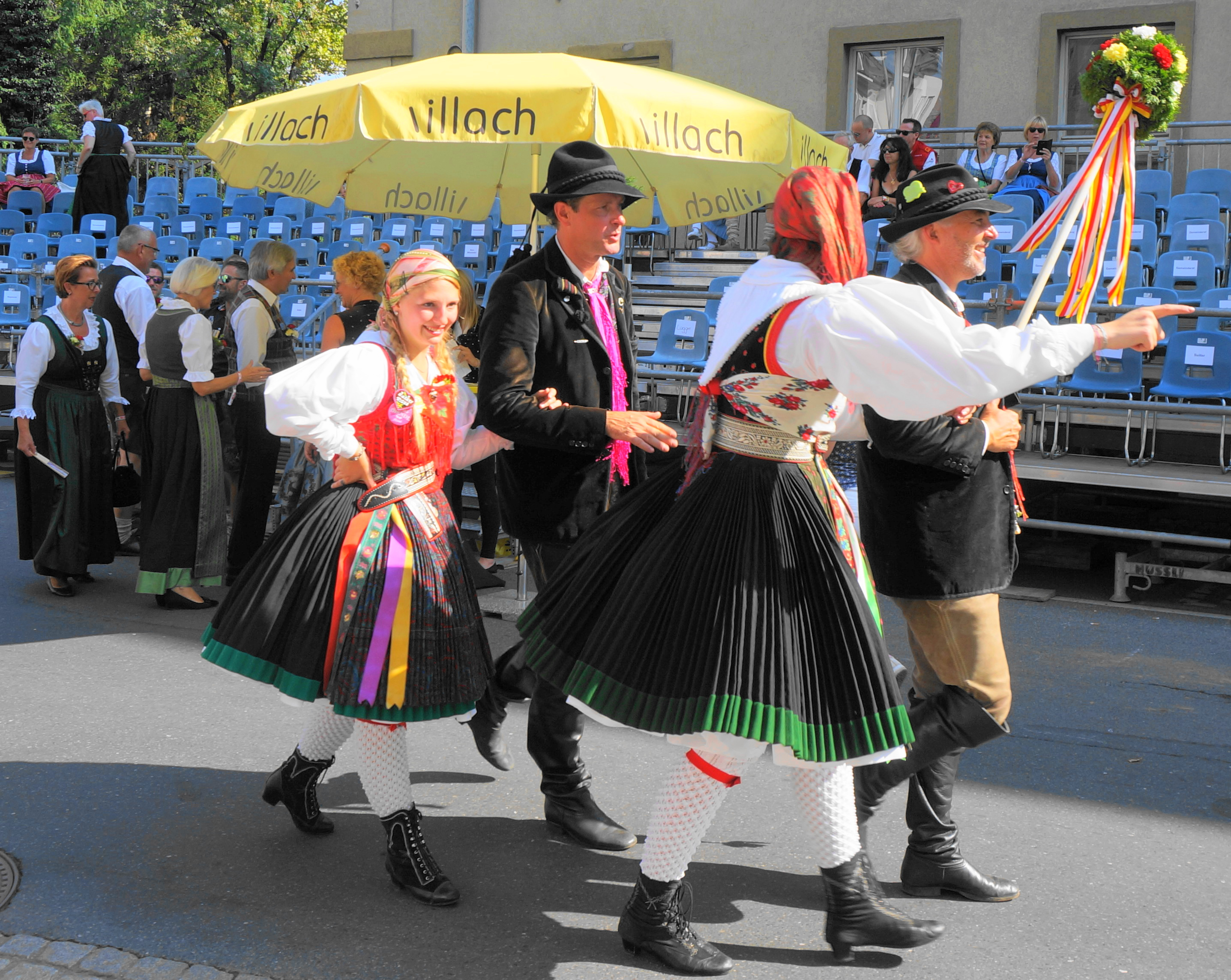 Folklore Festival 2017 Villach, Carinthia, Austria, EU in traditional clothing